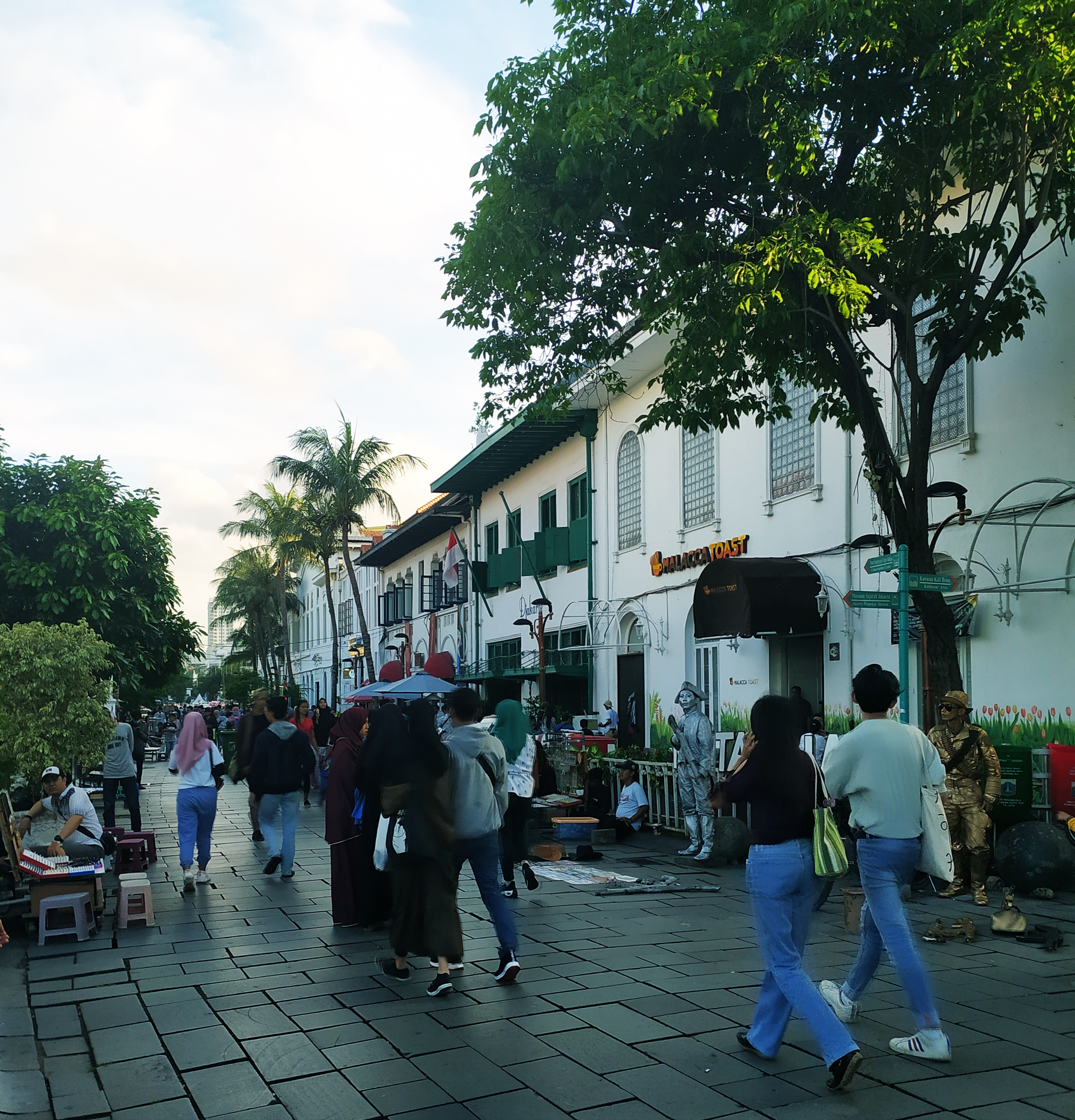 Suasana jalanan di Kawasan Kota Tua Jakarta Pada Februari 2020